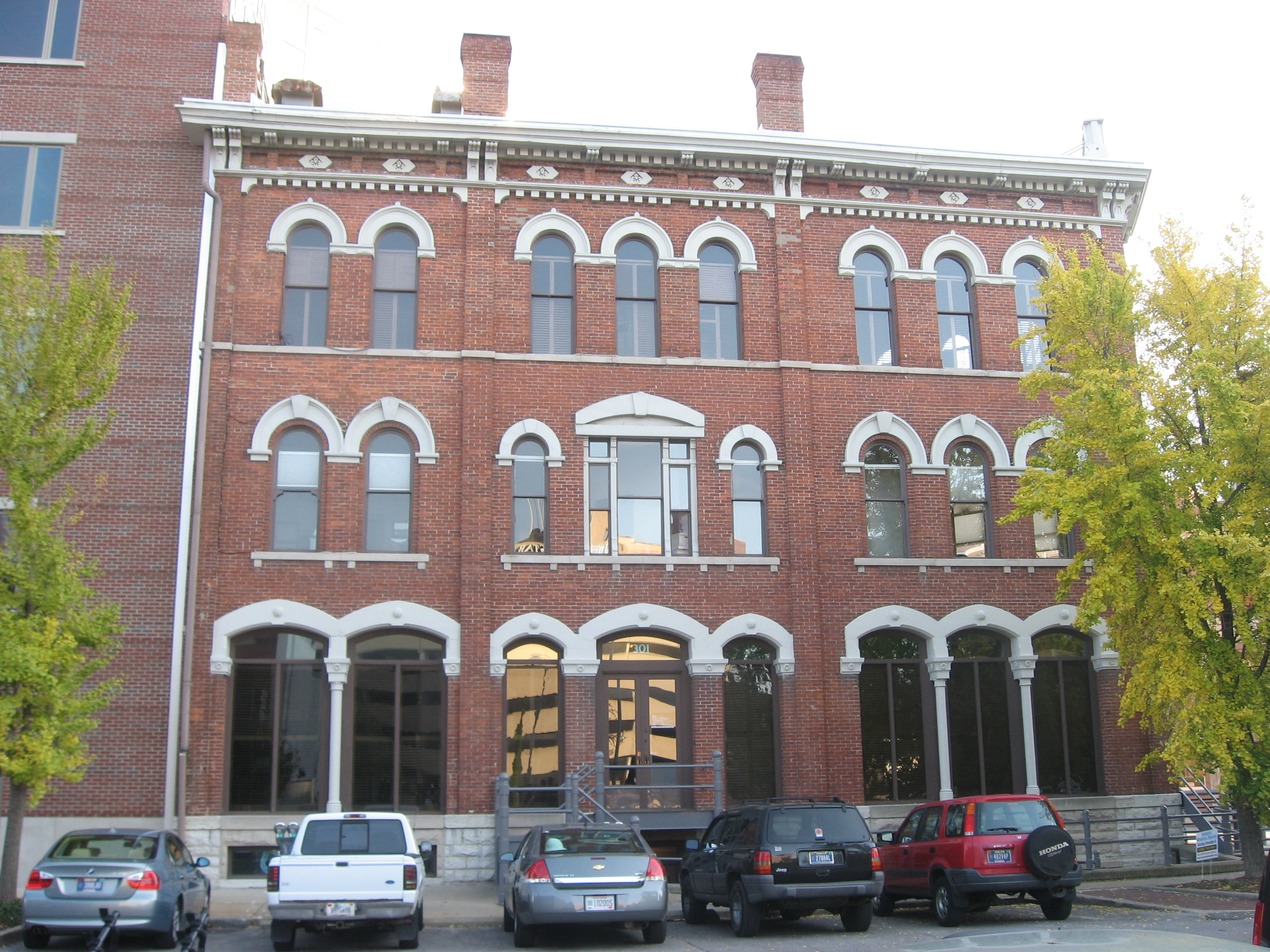 Front of the Hammond Block (also known as Budnick's Trading Mart), located at 301 Massachusetts Avenue in Indianapolis, Indiana, United States. Built in 1874, it is listed on the National Register of Historic Places, and it is part of the Massachusetts Avenue Commercial District, a Register-listed historic district.